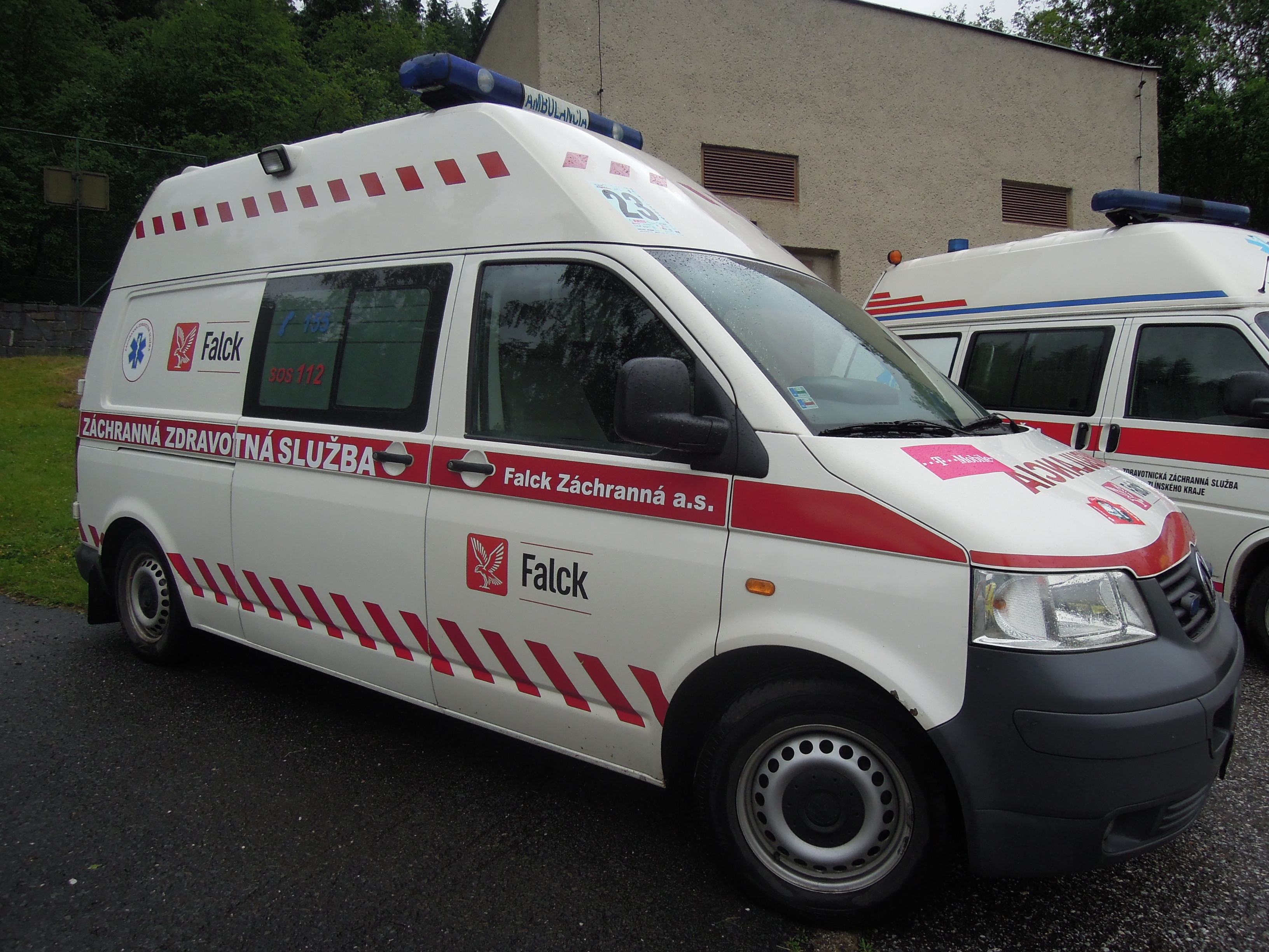 Volkswagen Transporter T5 ambulance vehicle of Falck Slovakia. Photo was taken during the international competition Rallye Rejvíz 2012 in Kouty nad Desnou, Olomouc Region, Czech Republic